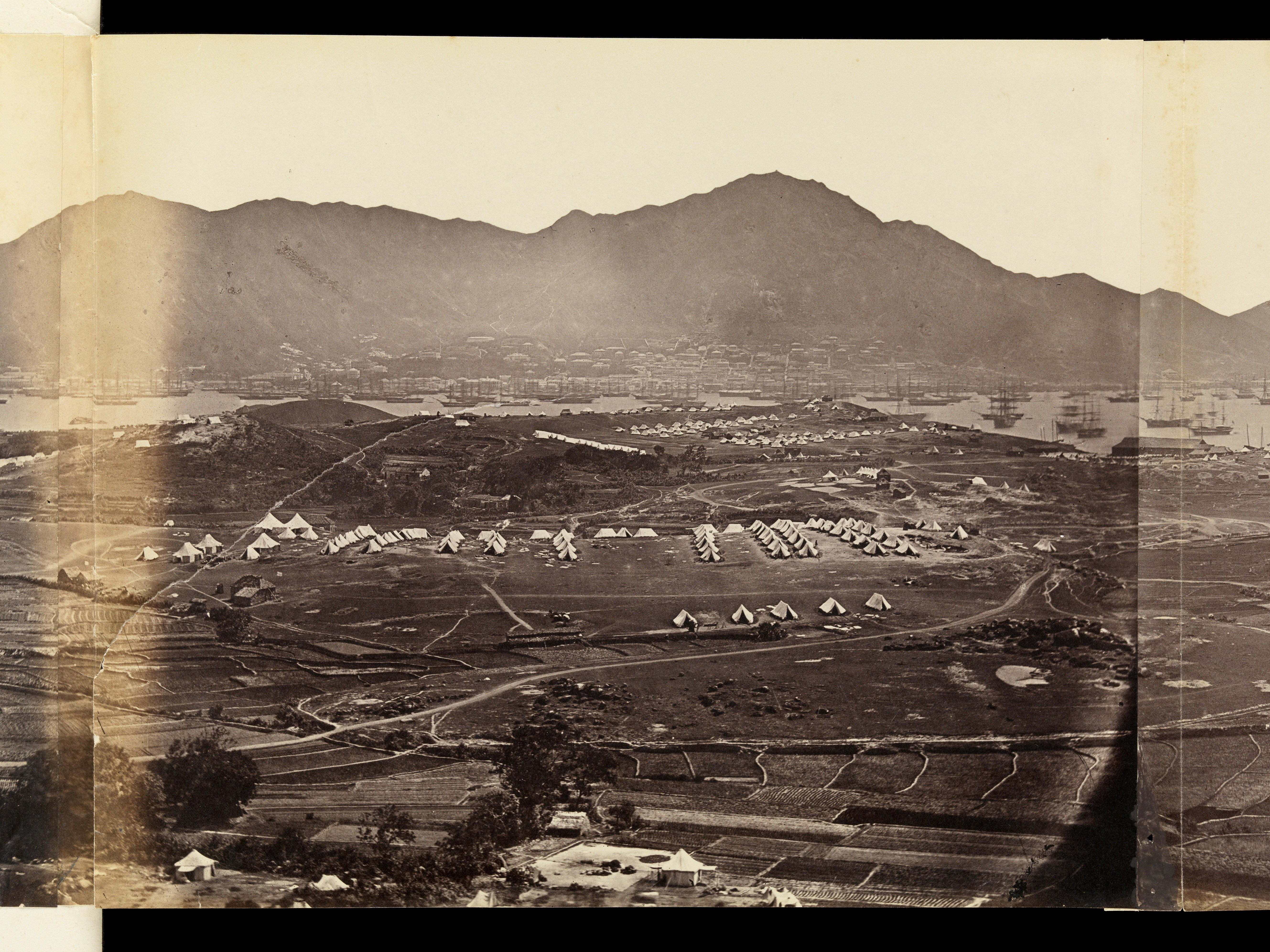 Kowloon, Hong Kong: military encampments on land and fleets in the bay during the Second China War: panoramic view: section four. Photograph by Felice Beato, ca. 1860. Iconographic Collections Keywords: Felice Beato